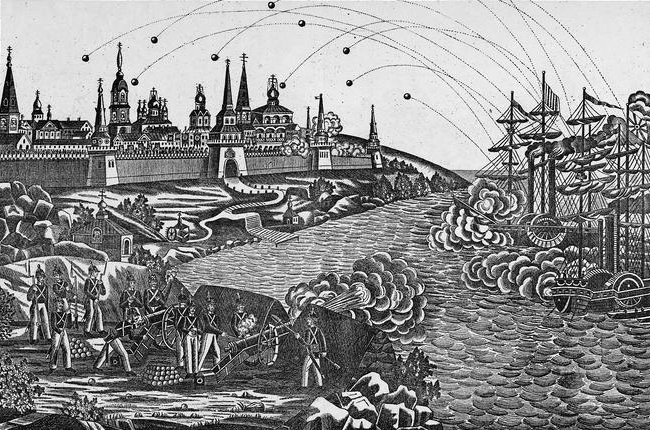 Britishmen attacked the Solovetsky Monastery (lubok)